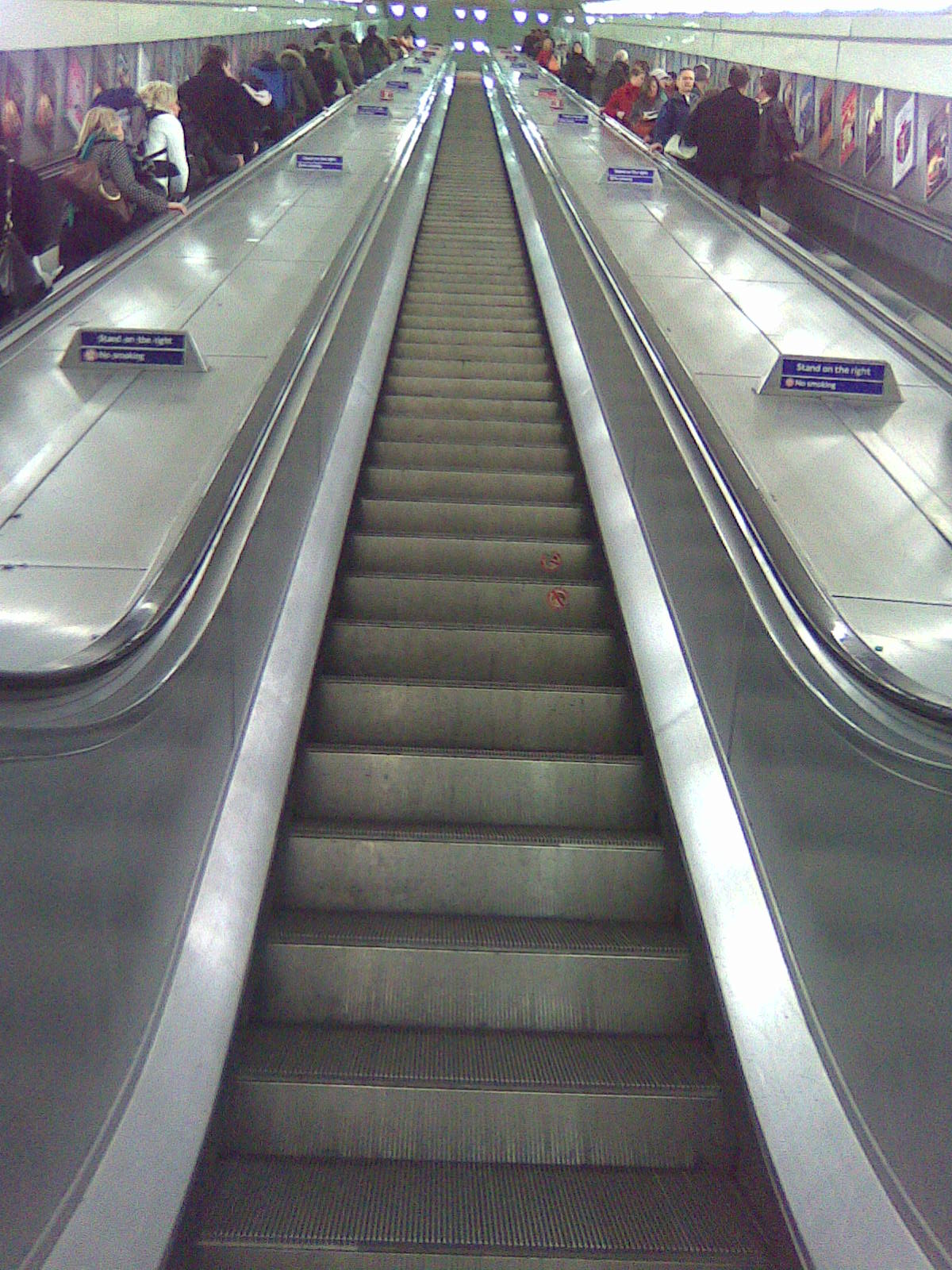 London Angel tube station has the longest escalators in Western Europe, with a vertical rise of 27.4 m (90 ft) and a length of 60 m (197 ft).